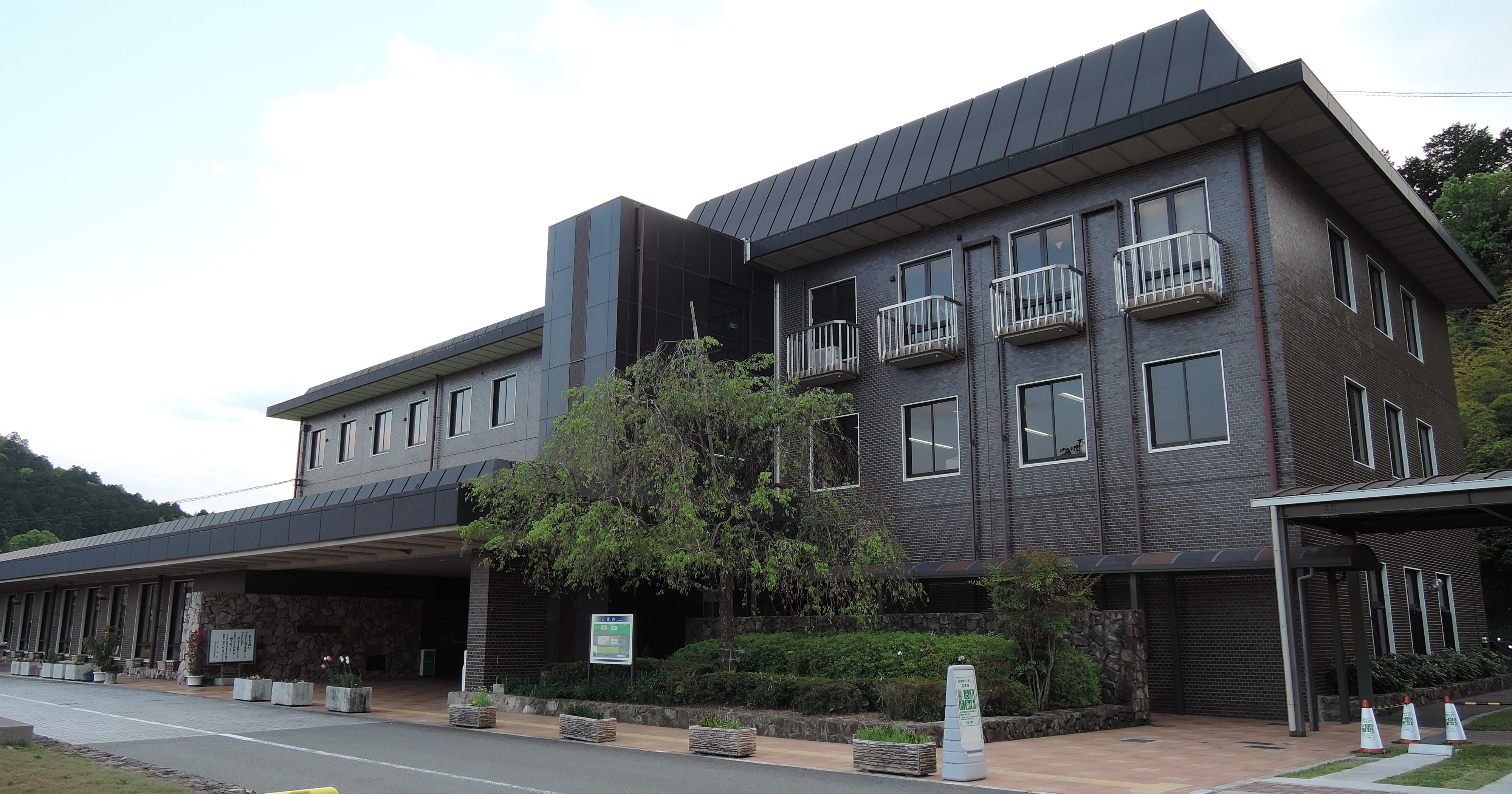 Inagawa town hall,Hyogo prefecture,Japan